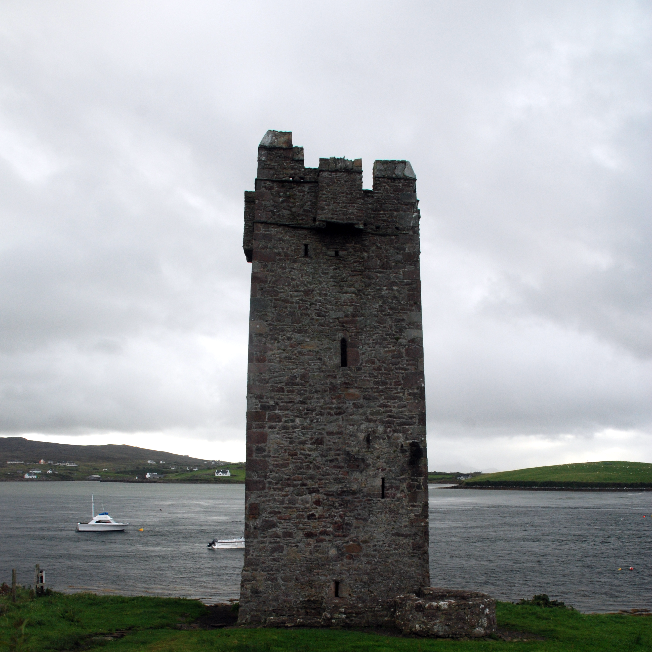 Carrickahowley (Rockfleet) Castle, County Mayo